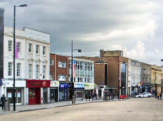 High Street, Southampton Looking south down the High Street from the south side of the Bargate